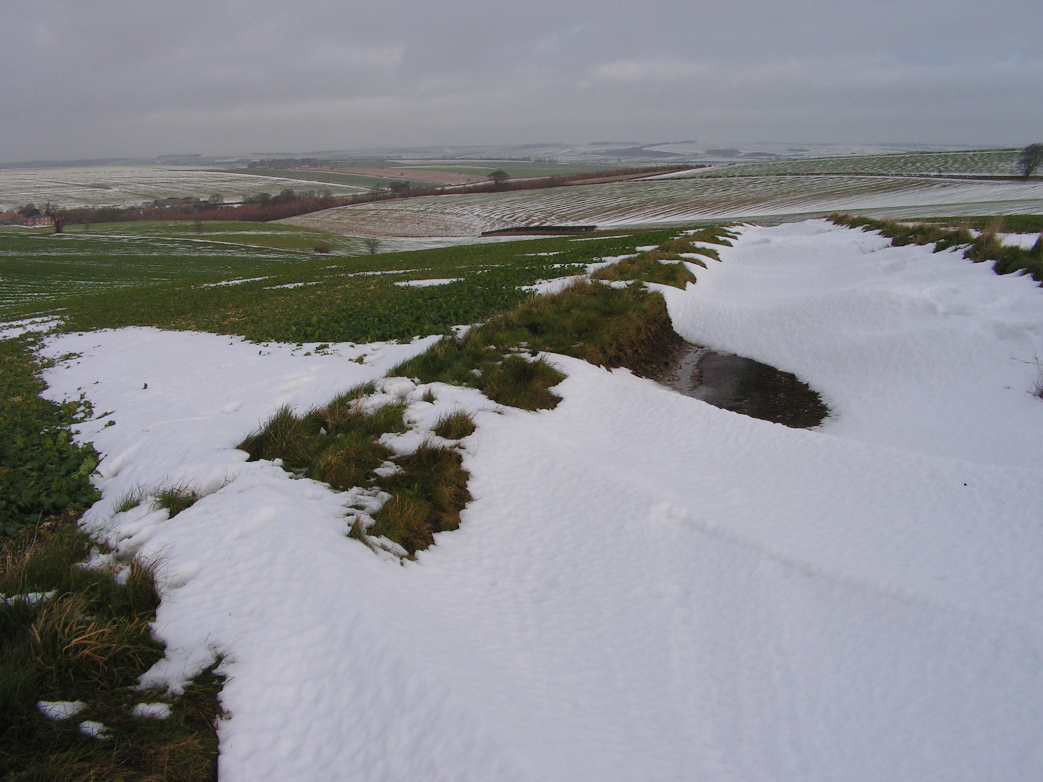 Winter view across Yorkshire Wolds near West Lutton.